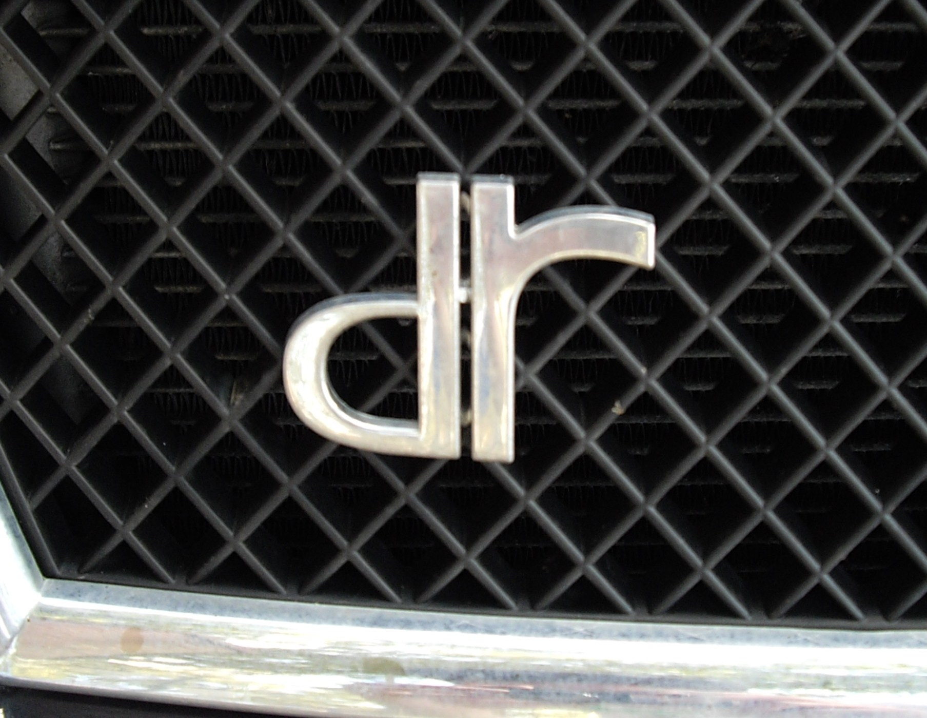 DR Automobiles badge